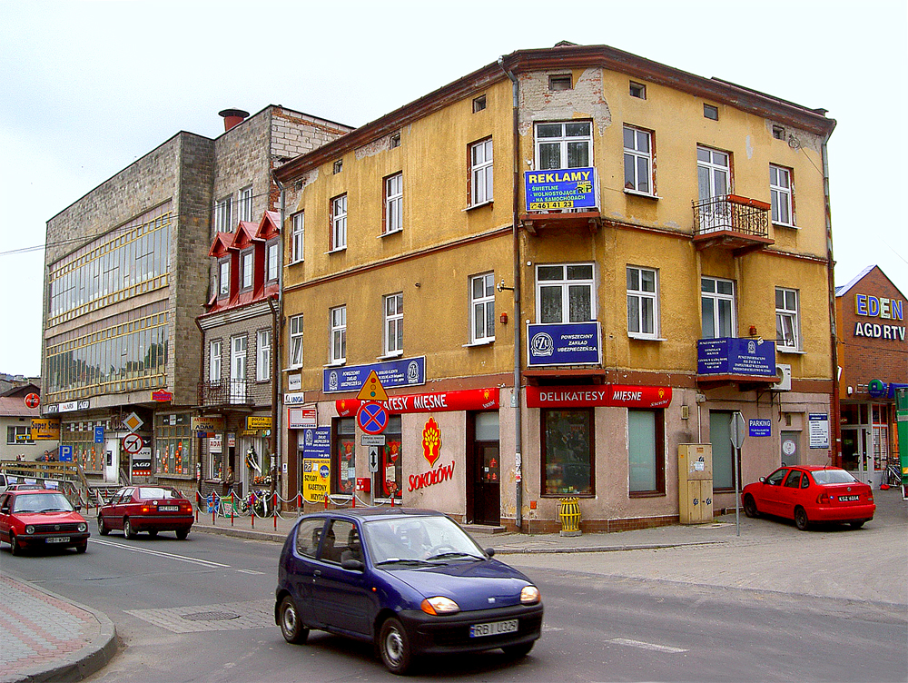 Ustrzyki Dolne, Poland - Town Centre